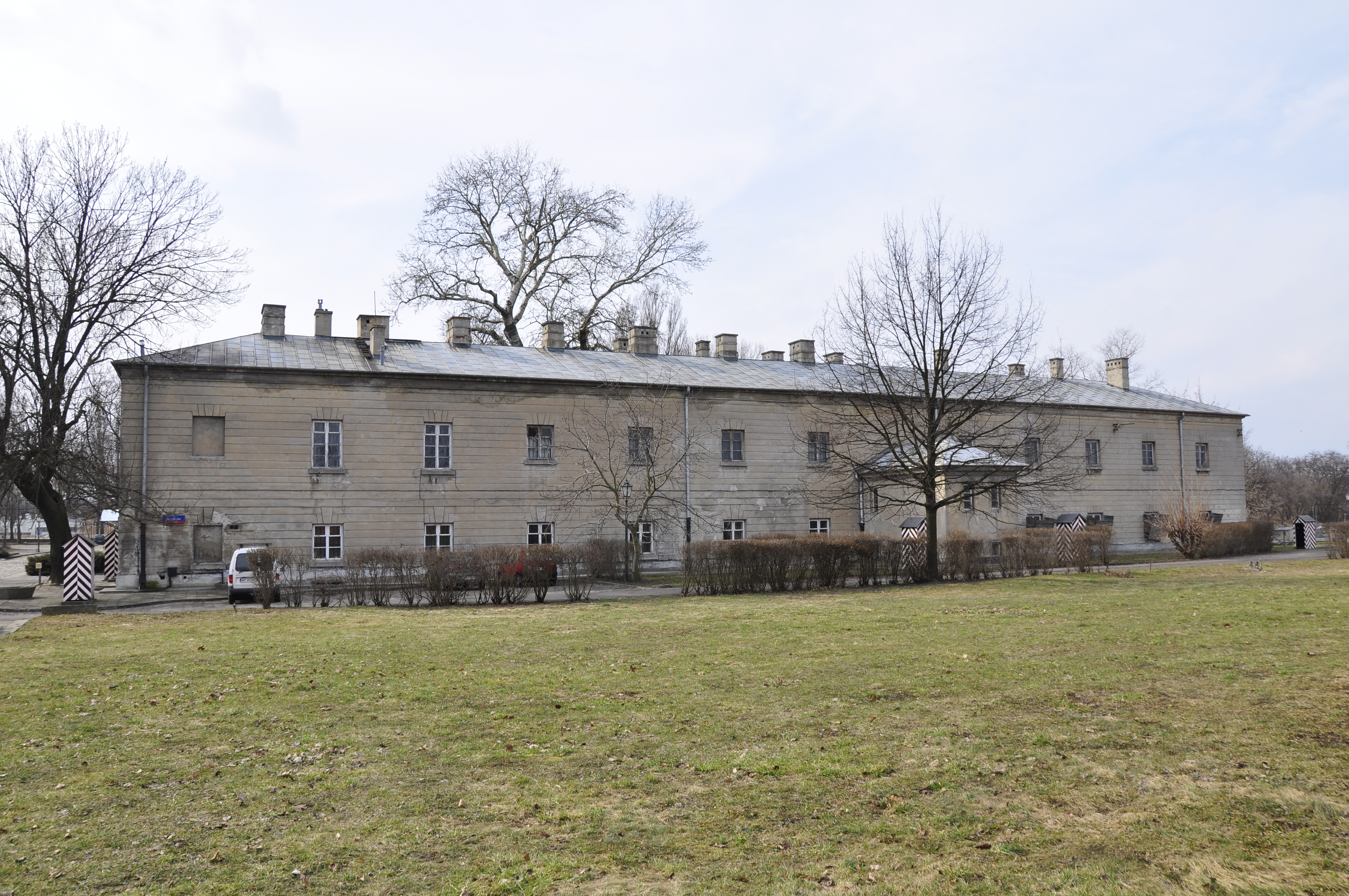 Cytadela, Warsaw, pav X (museum)